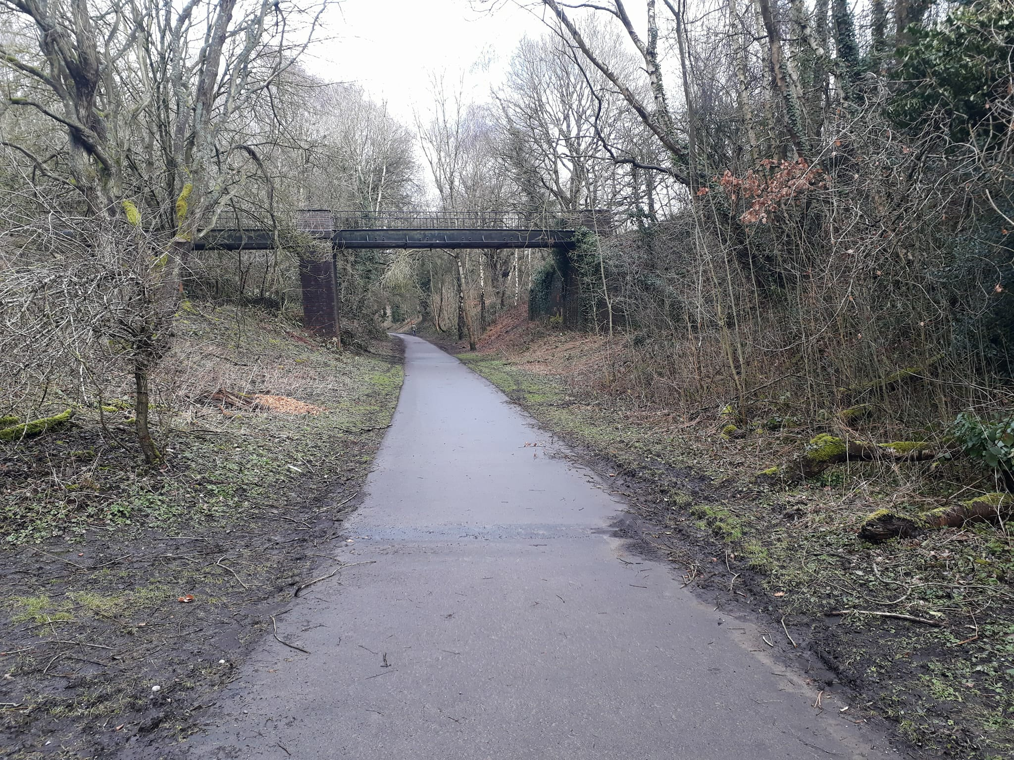 My Own.